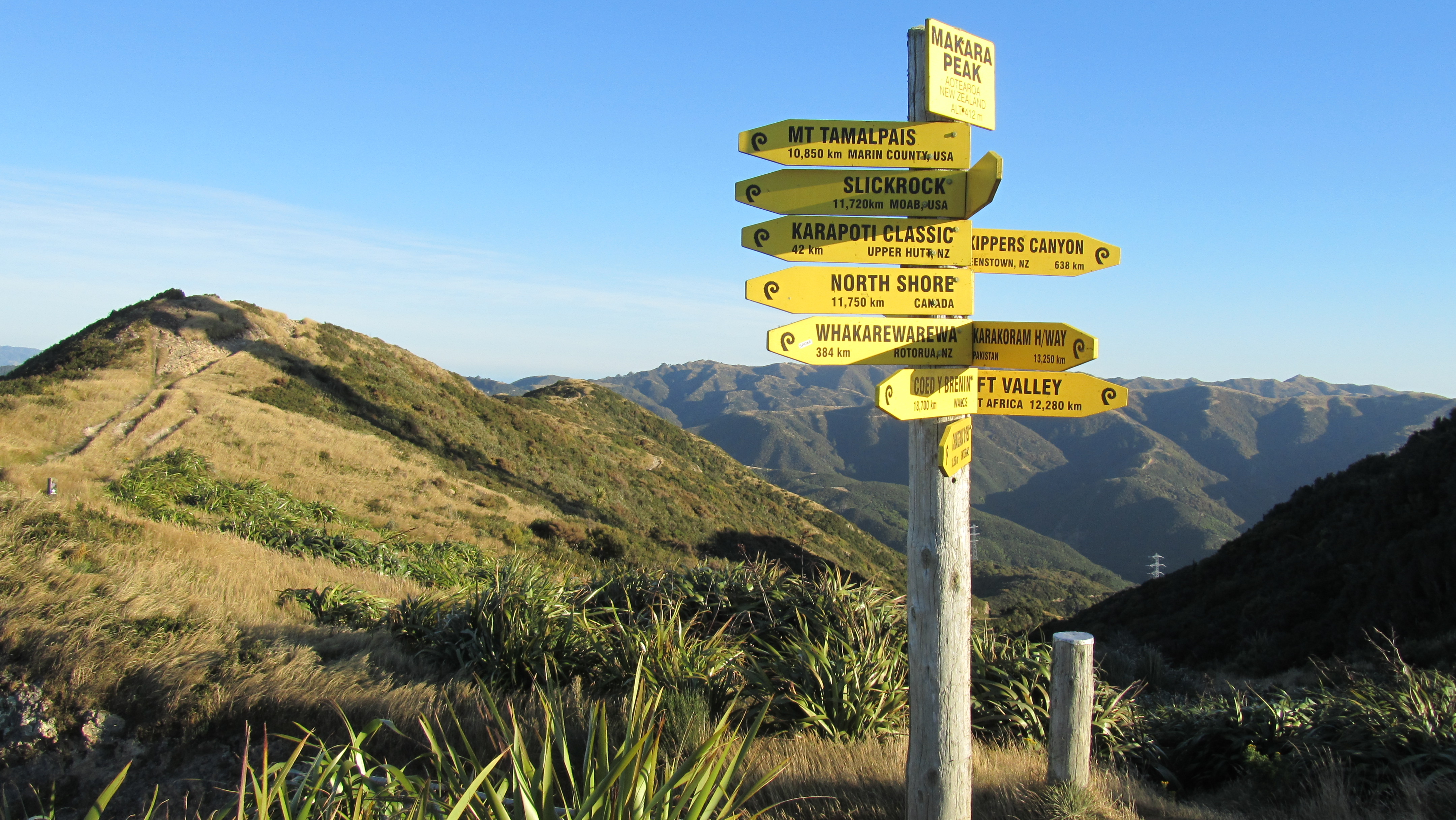 Summit sign of Makara Peak Mountain Bike Park